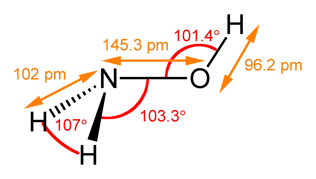 Structural formula of the hydroxylamine molecule, H2NOH. Bond lengths and angles from CRC Handbook, 88th edition.